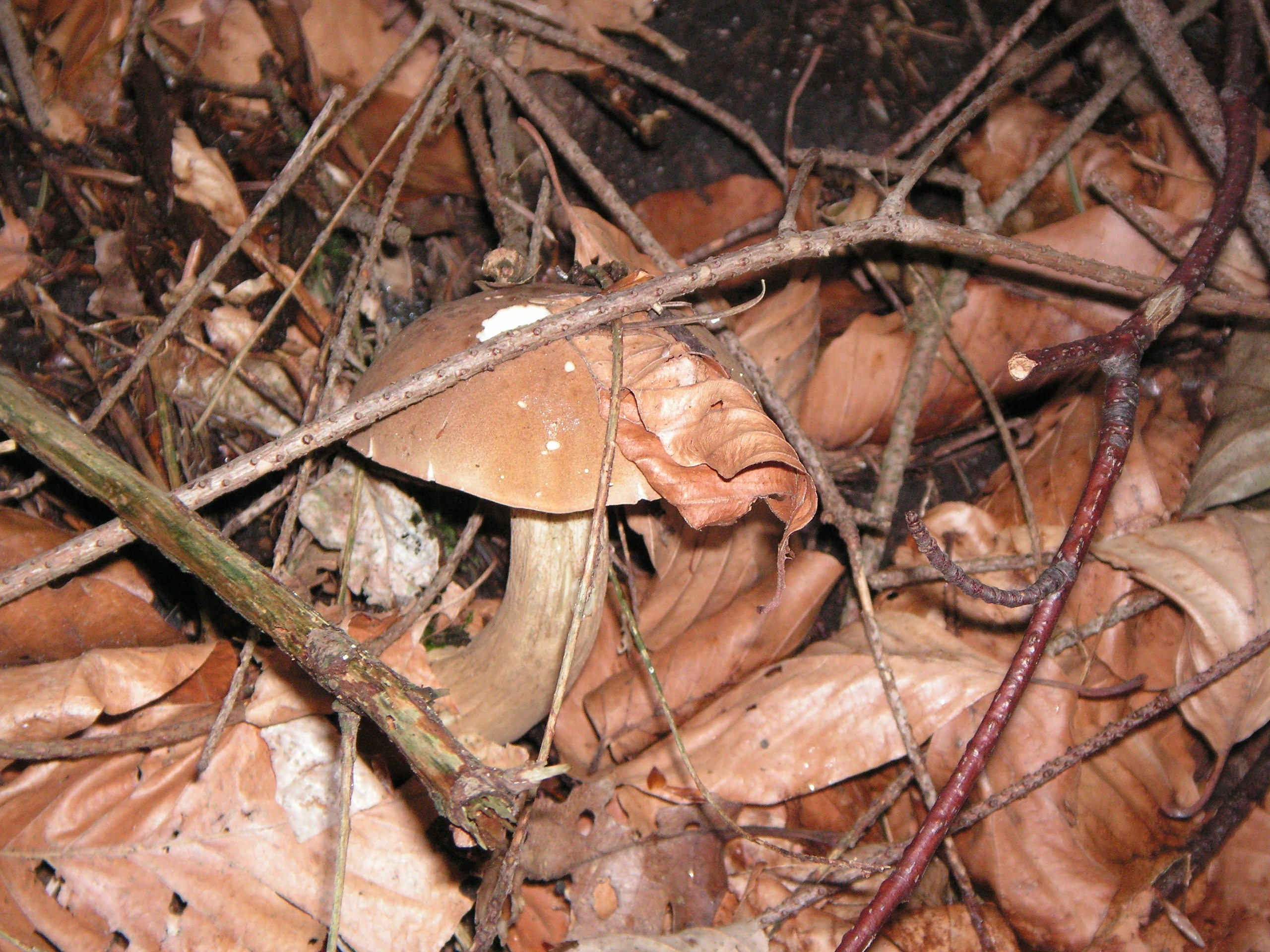 found in Eichelberg Germany